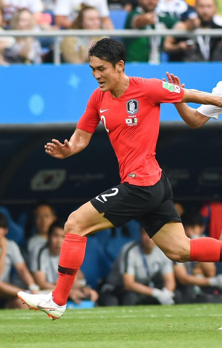 Mexico and South Korea match at the FIFA World Cup 2018-06-23